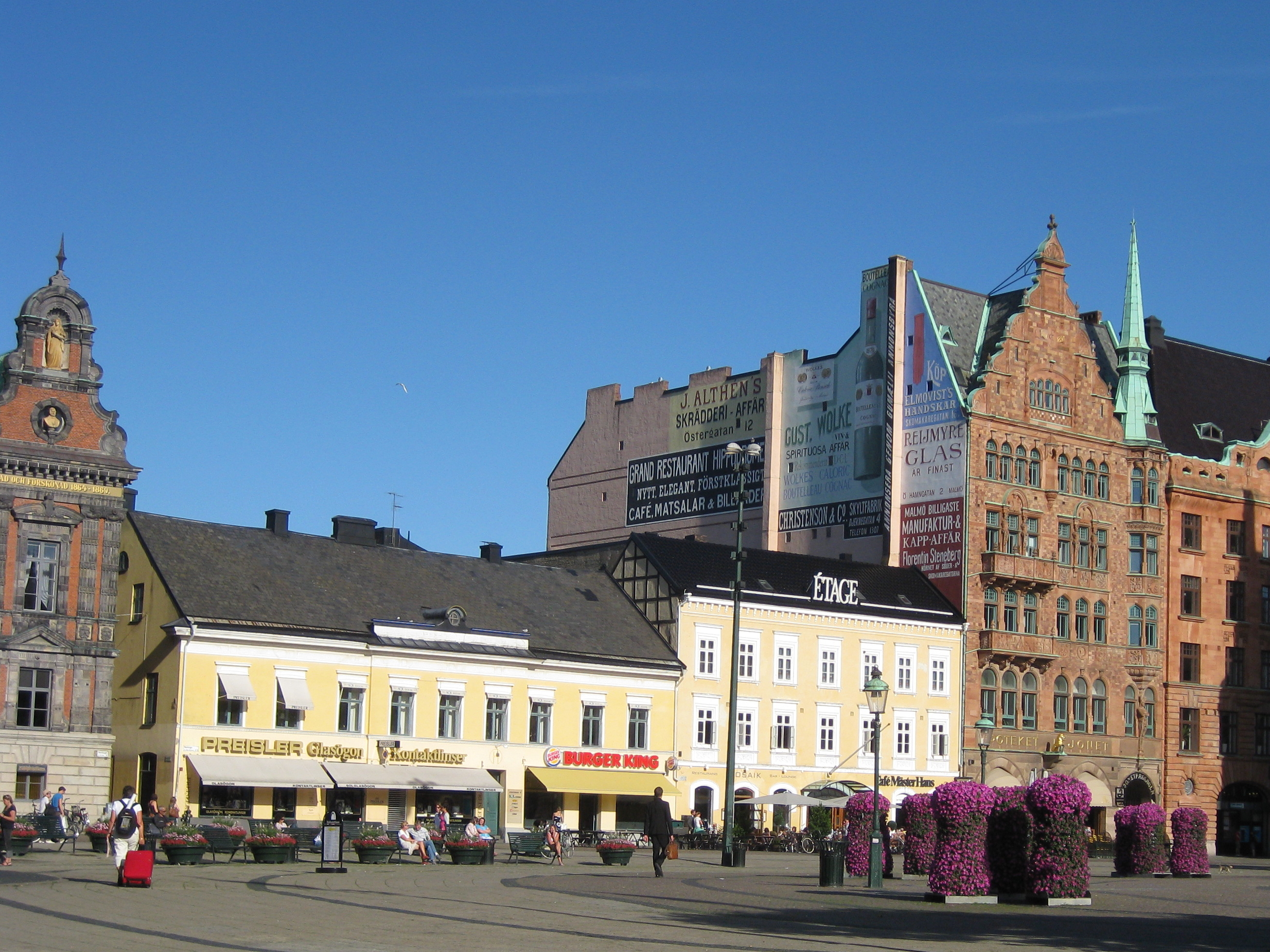 View from the main square, Malmö, Sweden